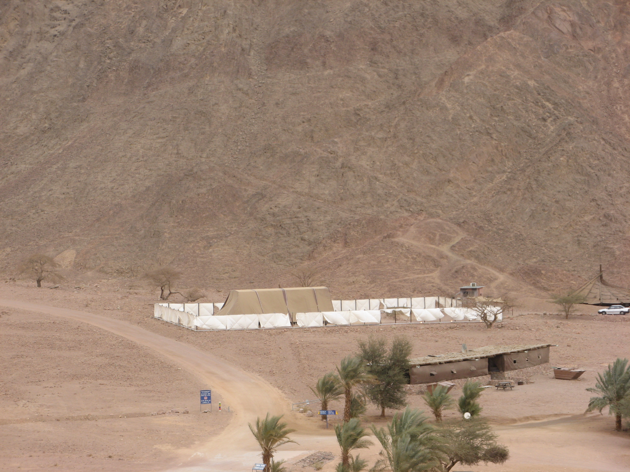 A model in full scale of he Mishkan in Timna, on a windy day